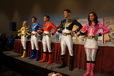 The Cast Members of Power Rangers Megaforce made their first public appearance at Power Morphicon 3 in Pasadena, CA. The cast was revealed during the Saban Brands Mega Panel after the Power Rangers Megaforce teaser was shown. This photo was taken by RangerCrew ( and Samurai Cast (